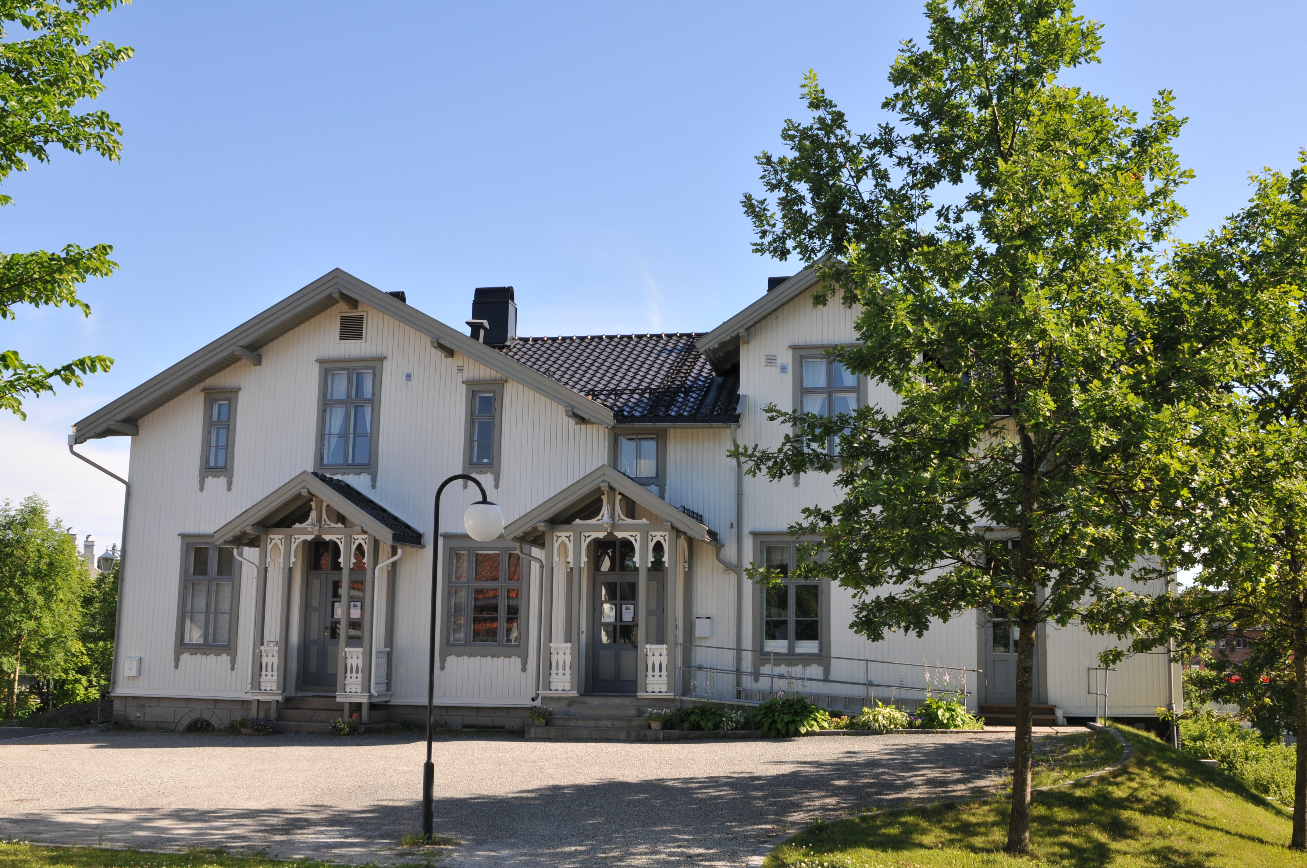 Hasselbakken in Askerveien 47, Asker, Norway